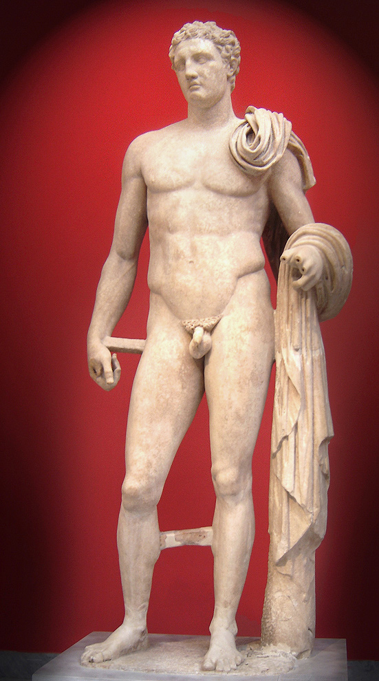 The Hermes from Atalante, in the National Archaeological Museum in Athens. This 2nd century BC statue represents a deceased youth in heroic nudity, after an original dating from the 4th century BC and inspired by the lysippean style.